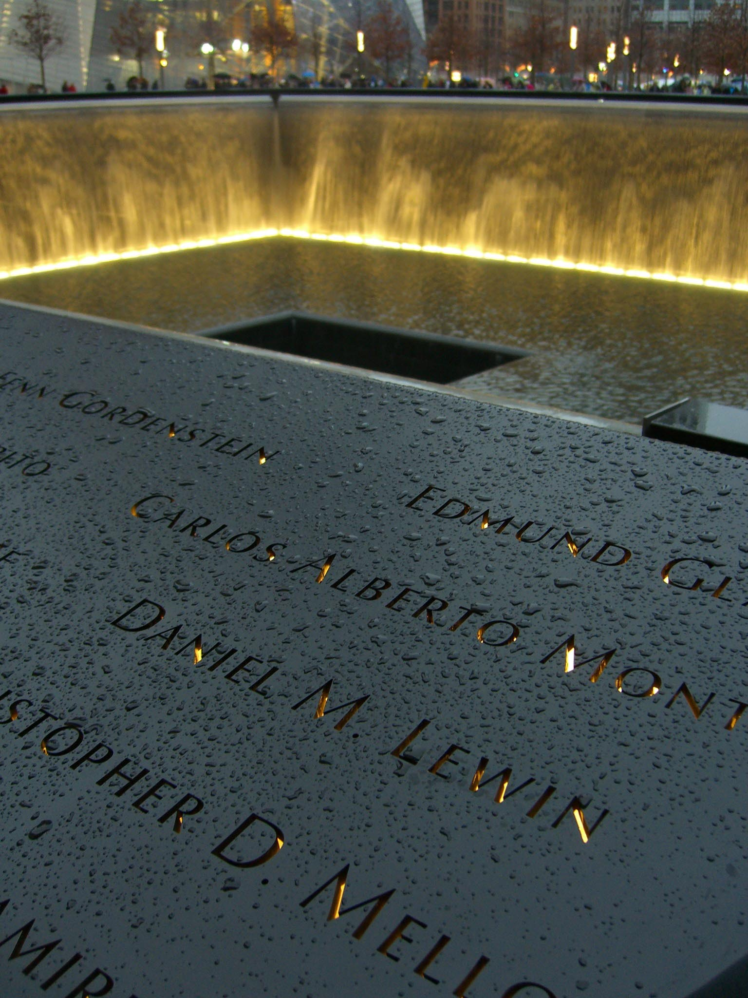 The name of Daniel M. Lewin is seen with those of other 9/11 victims from American Airlines Flight 11, inscribed on bronze panel N-75 of the North Pool of the National September 11 Memorial in Manhattan, as seen on December 6, 2011. This photo was created by Luigi Novi. If you have any questions, you can contact me by sending me an email or User talk:Nightscream